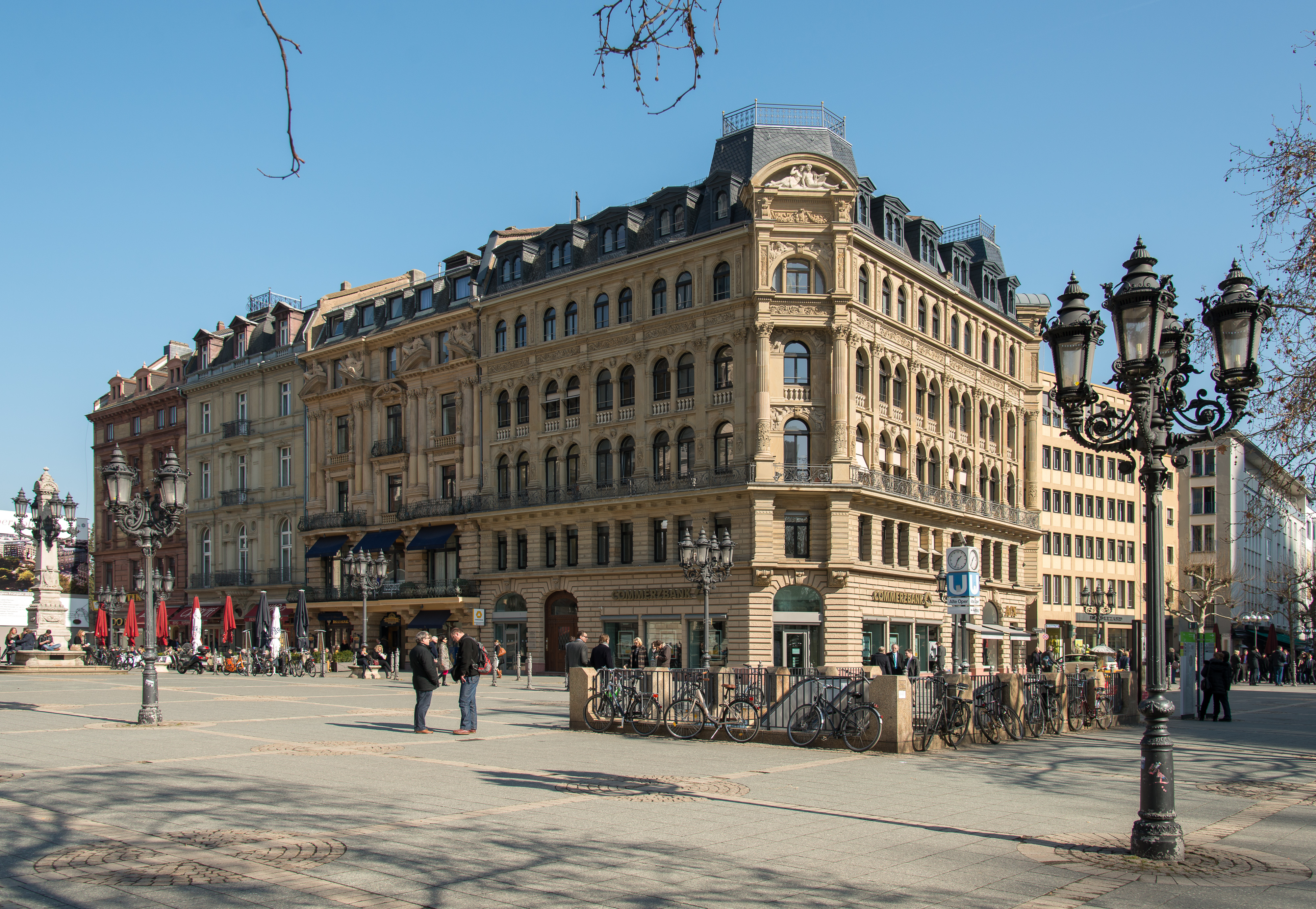 Frankfurt am Main, eastern side of the opera place with several cultural monuments of the city.